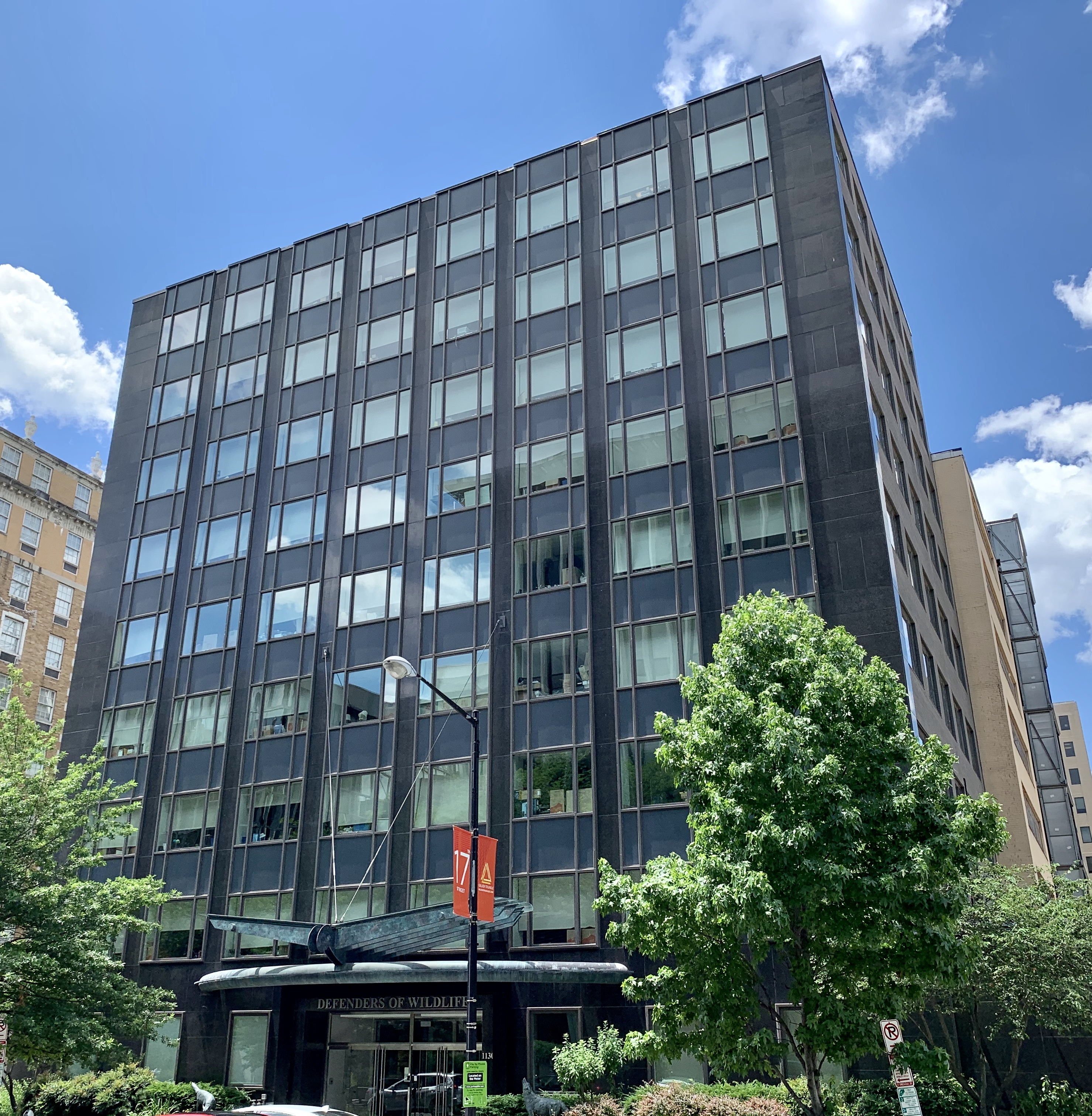 The Defenders of Wildlife headquarters located at 1130 17th Street NW in Washington, D.C. The modernist office building was constructed in 1951.